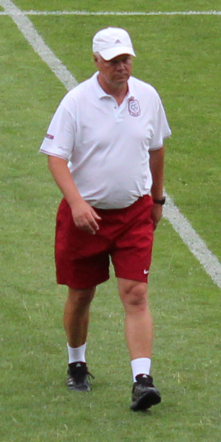 Viacheslav Mazarati